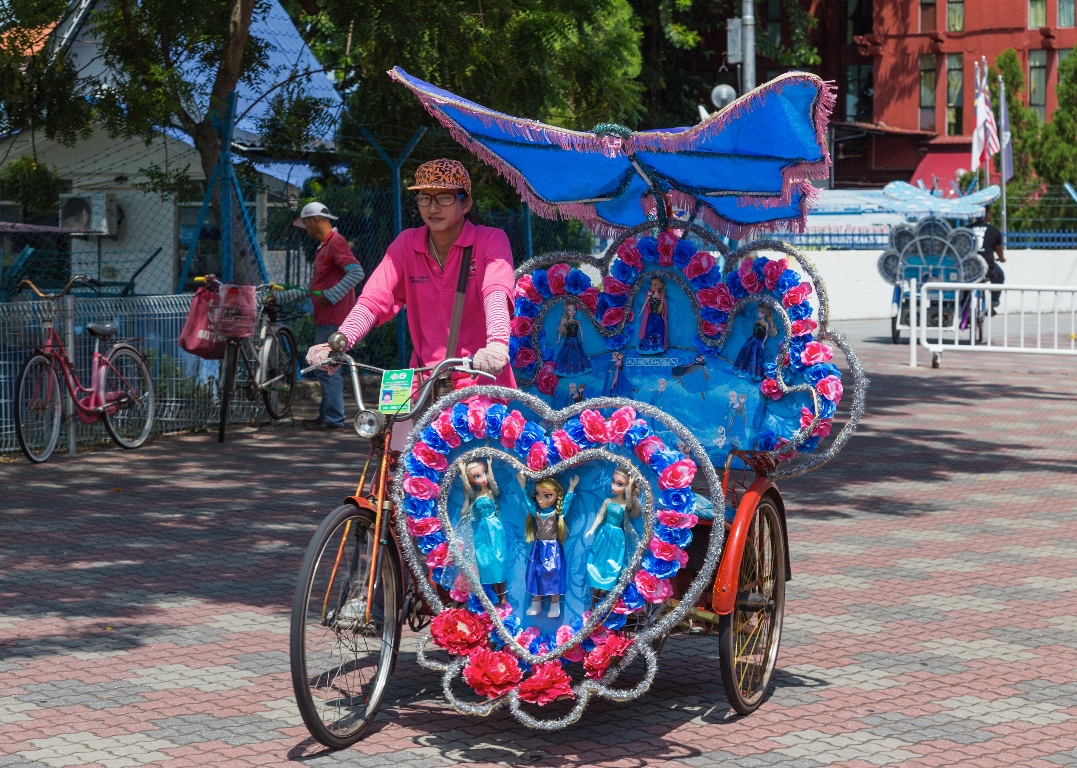 Colourful cycle rickshaw. Malacca City, Malacca, Malaysia.